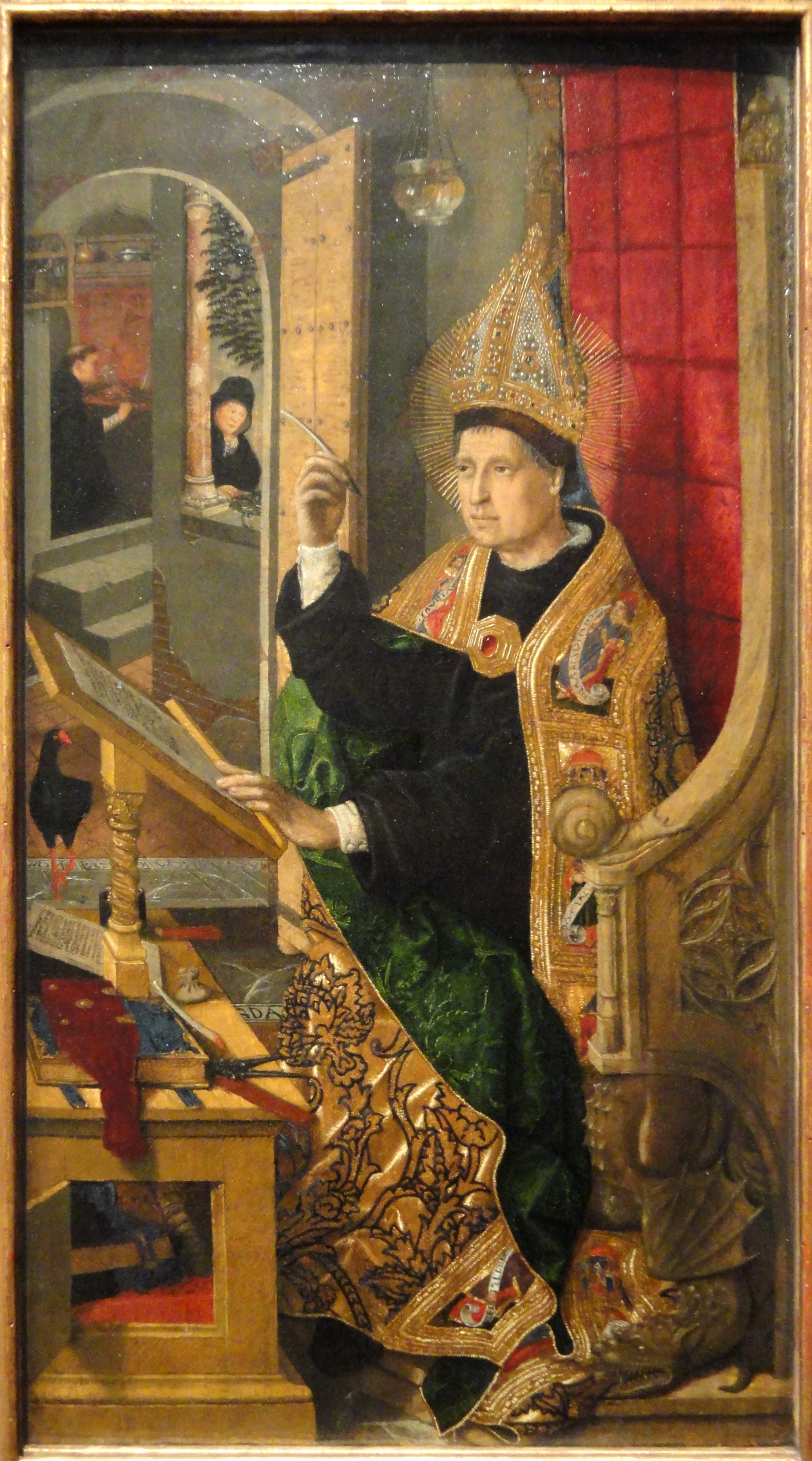 Exhibit in the Art Institute of Chicago, Chicago, Illinois, USA. This artwork is in the public domain because the artist died more than 70 years ago.